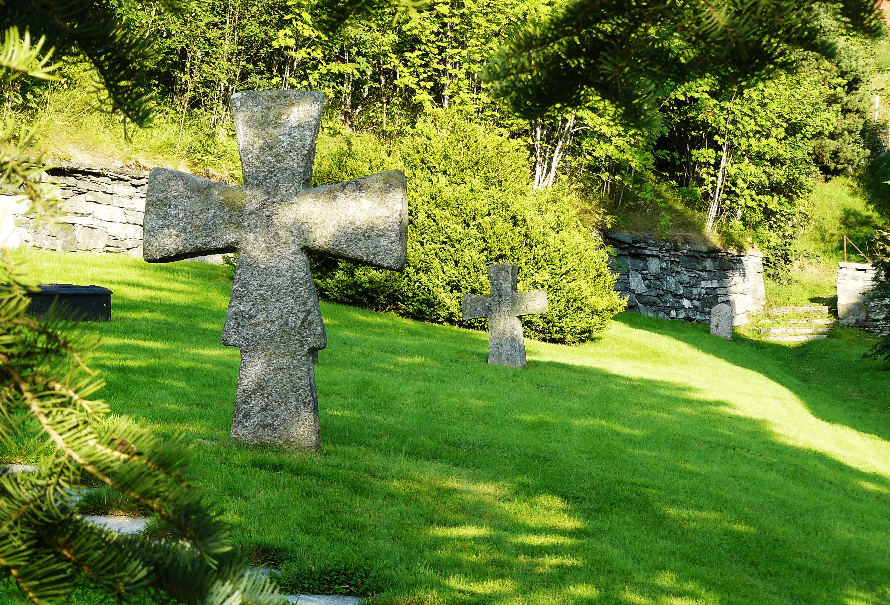 Vereide church - stonecross placed beside church